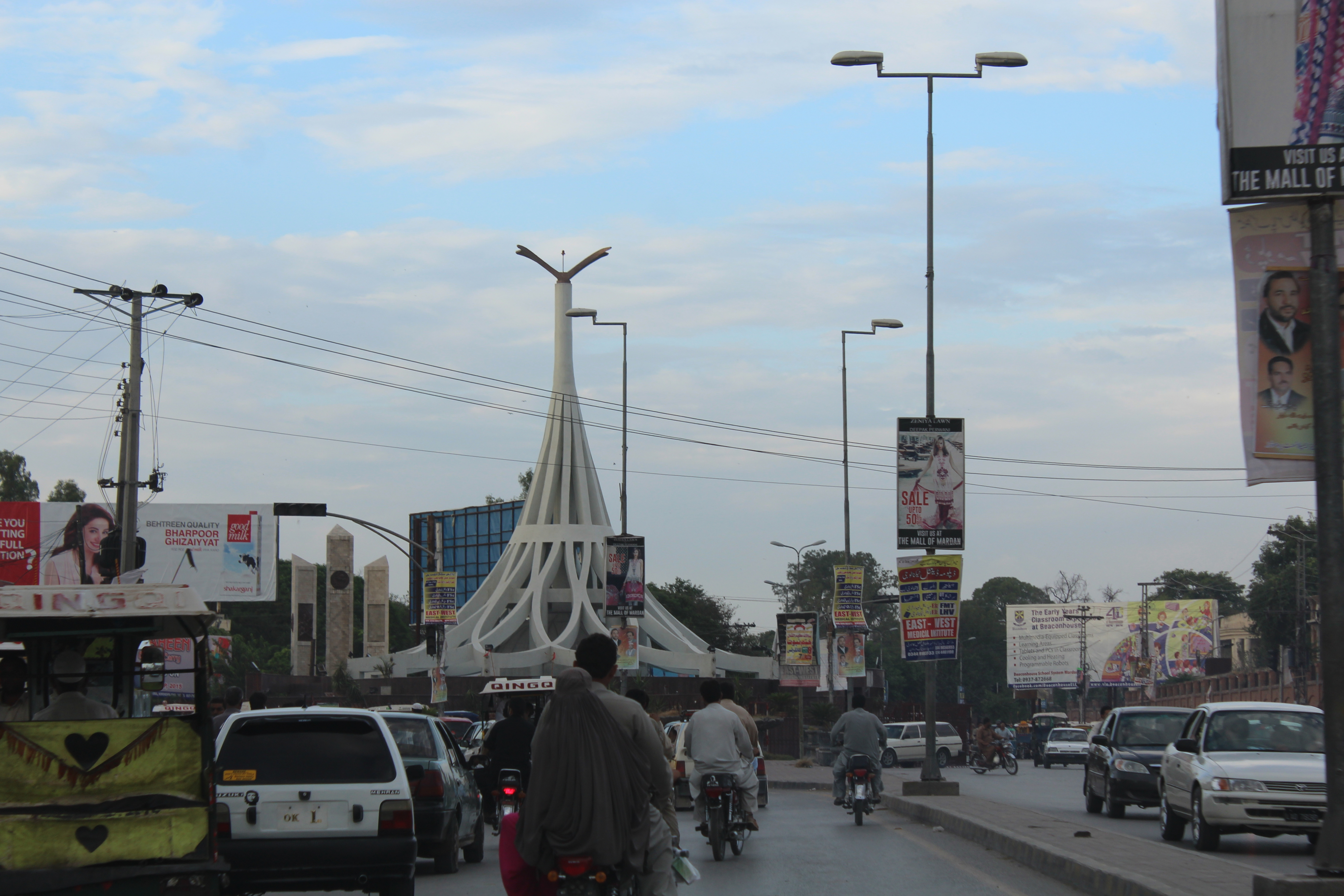 Mardan City